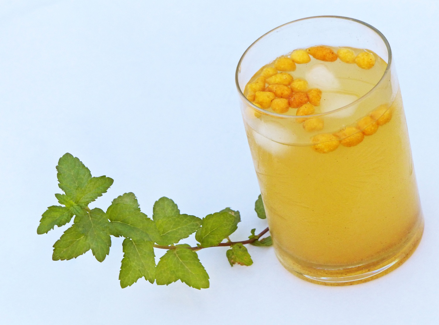 Its time to beat summer with this chilled Refreshing Jal Jeera